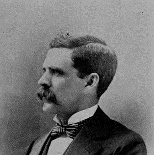 Portrait of George M. Palmer, New York assemblyman and Democratic State chairman